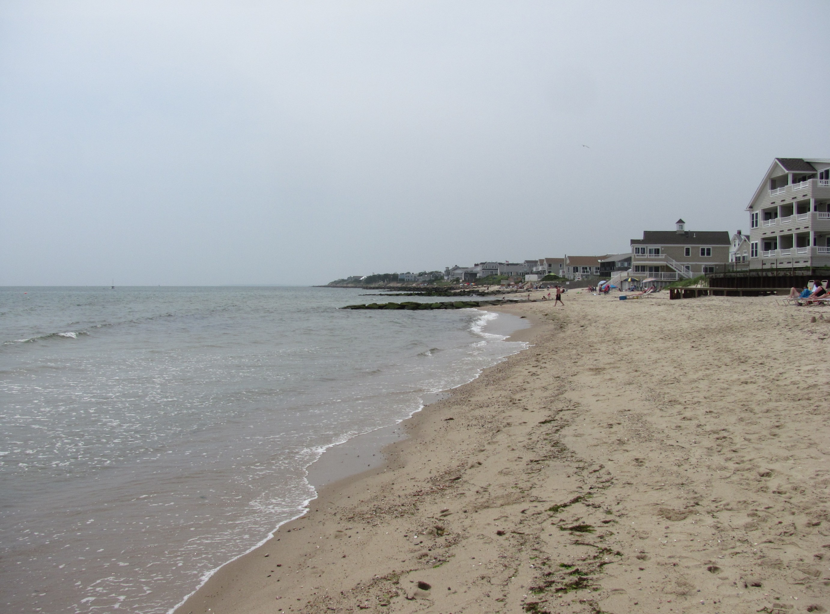 Looking West from Inman Road Beach, Dennis Port Massachusetts